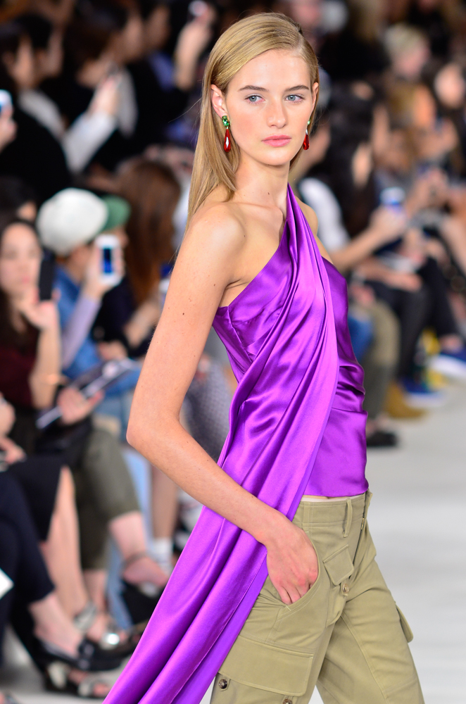 Sanne Vloet opening the Ralph Lauren Spring/Summer 2015 fashion show.